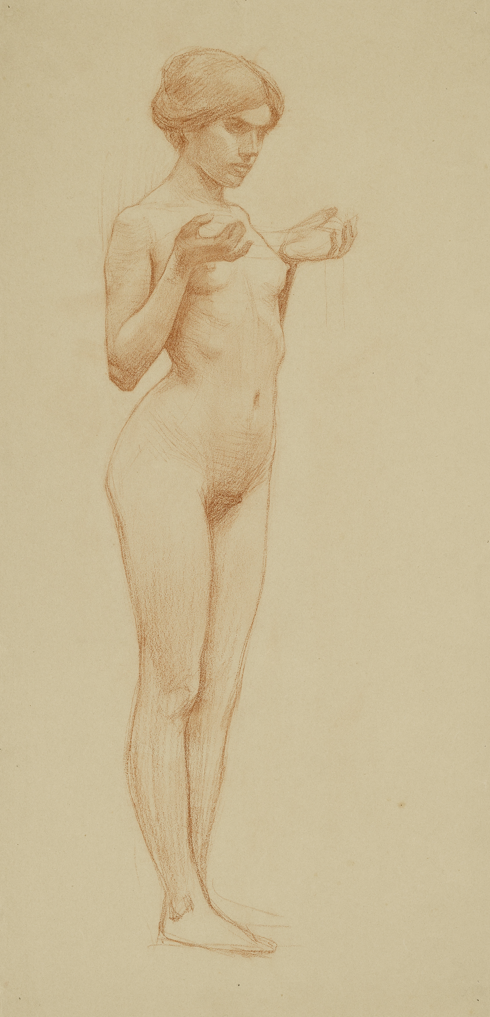 Stehender weiblicher Akt von Sigmund Lipinski, Rötel auf Papier, 53,5 x 26 cm